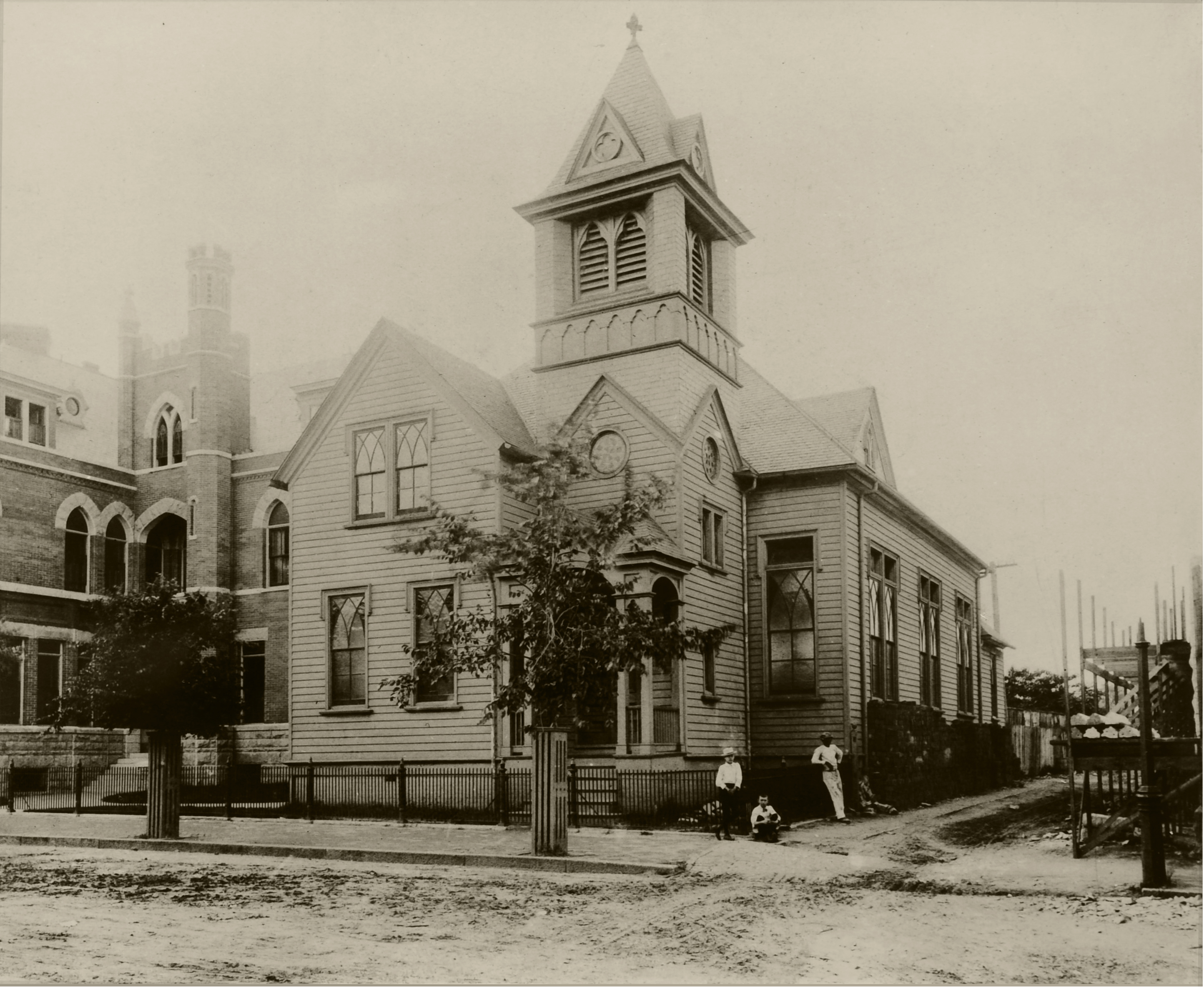 St. Andrew's Sunday School and Concert Hall, circa 1901